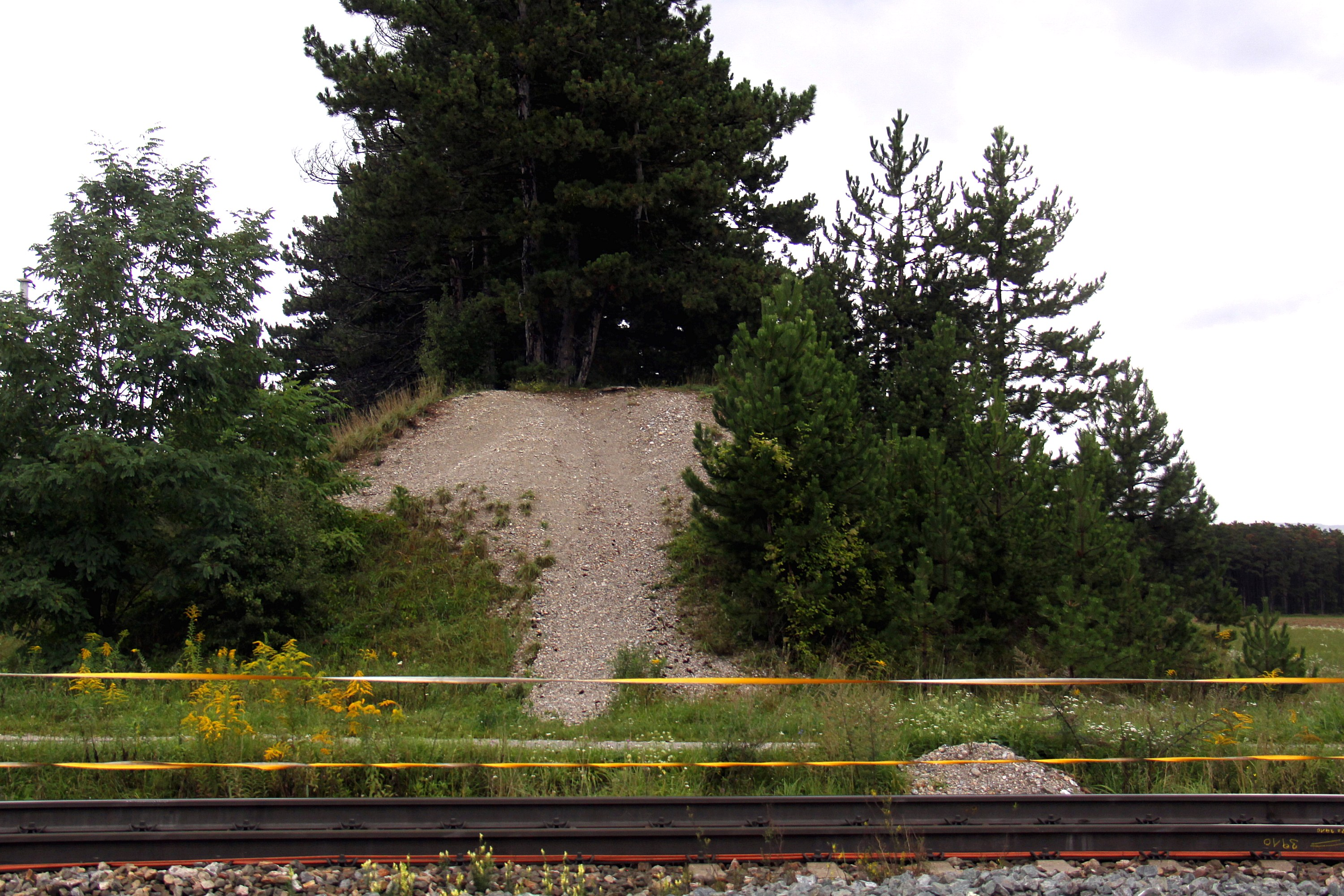 Total remodeling, renovation and modernization of Neunkirchen railwaystation. – The old railway embankment of the local railway Willendorf–Neunkirchen Lbf who crossed the southern railway line here.